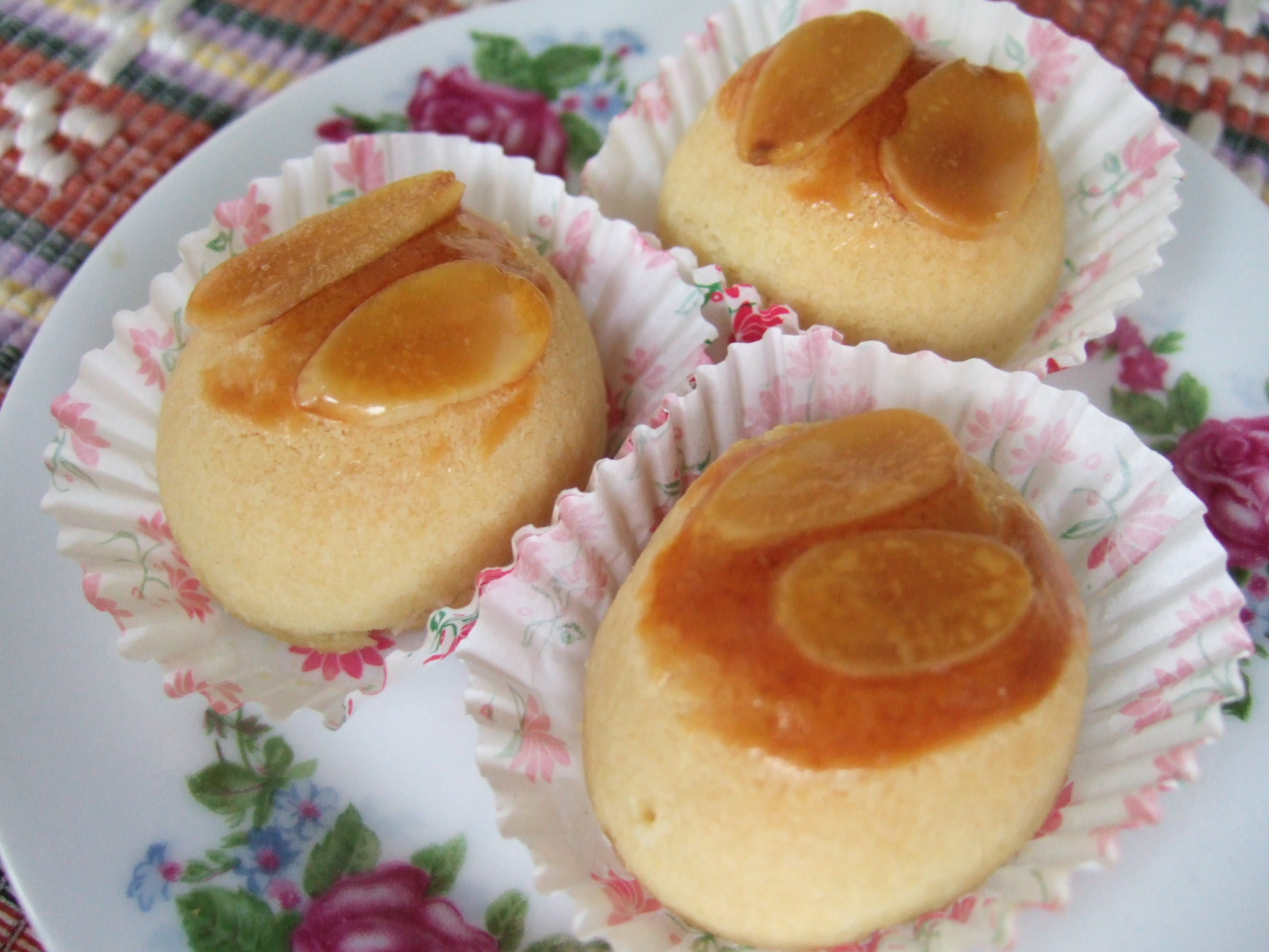 Durian cookies from Pontianak, West Kalimantan, Indonesia